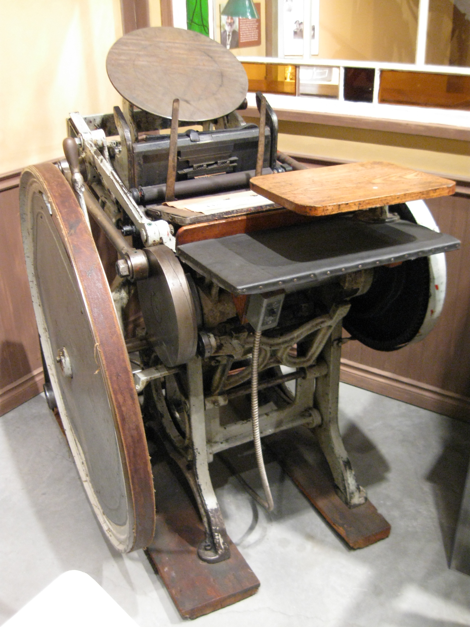 A motorized Platen Printing press model which was capable of performing 2,500 to 3,000 impressions per hour. Currently in the Surrey Museum in Cloverdale, this particular model was seized from a Japanese print shop in Vancouver, Canada during the 1942 Japanese internment. The owners were later compensated by the Canadian Government.